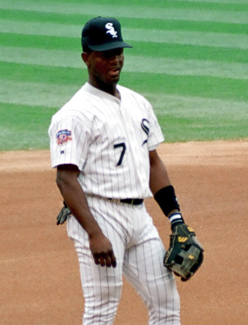 Chicago White Sox player Norberto Martin, 1997.